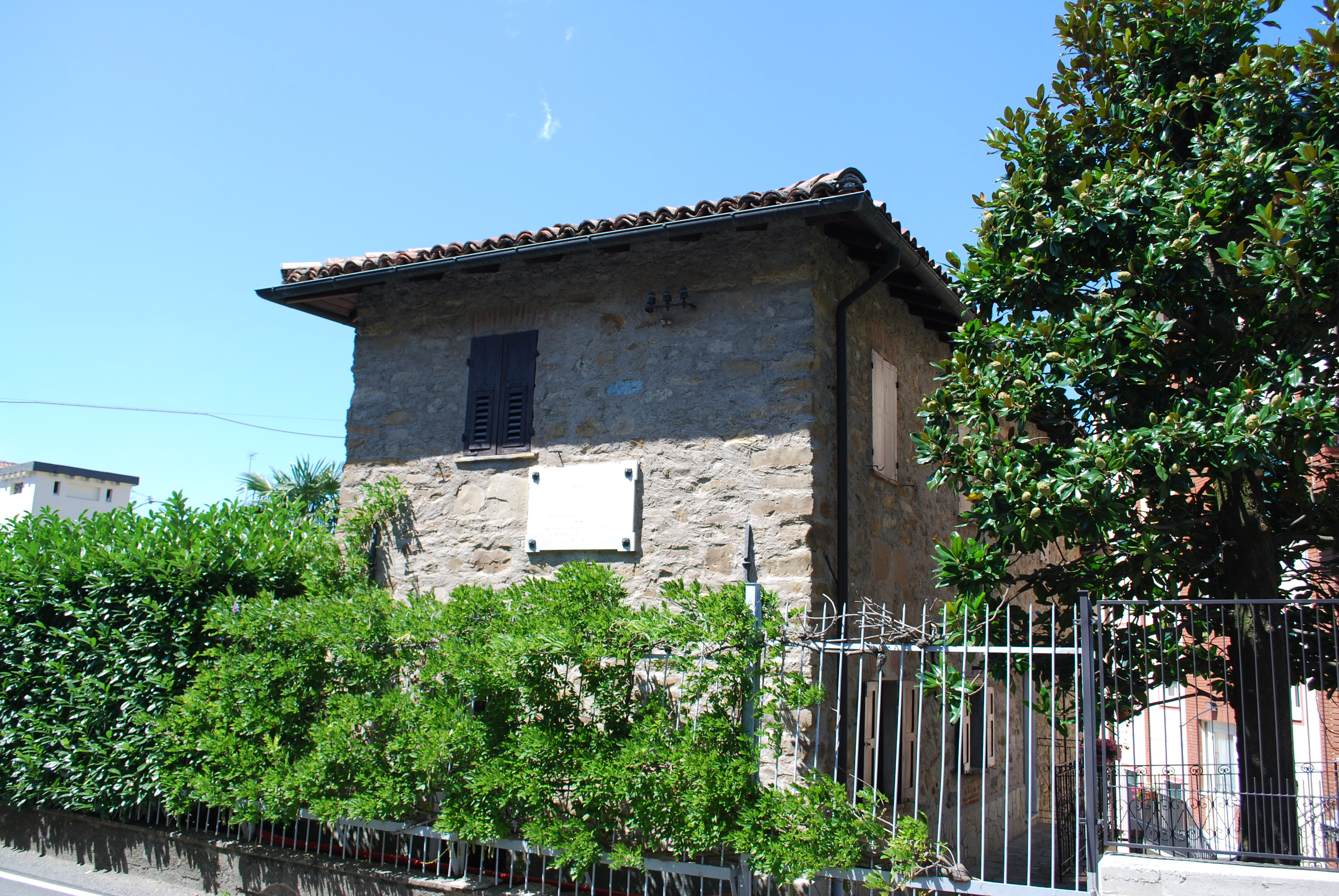 Mazzarelli, birthplace of Maria Domenica Mazzarello